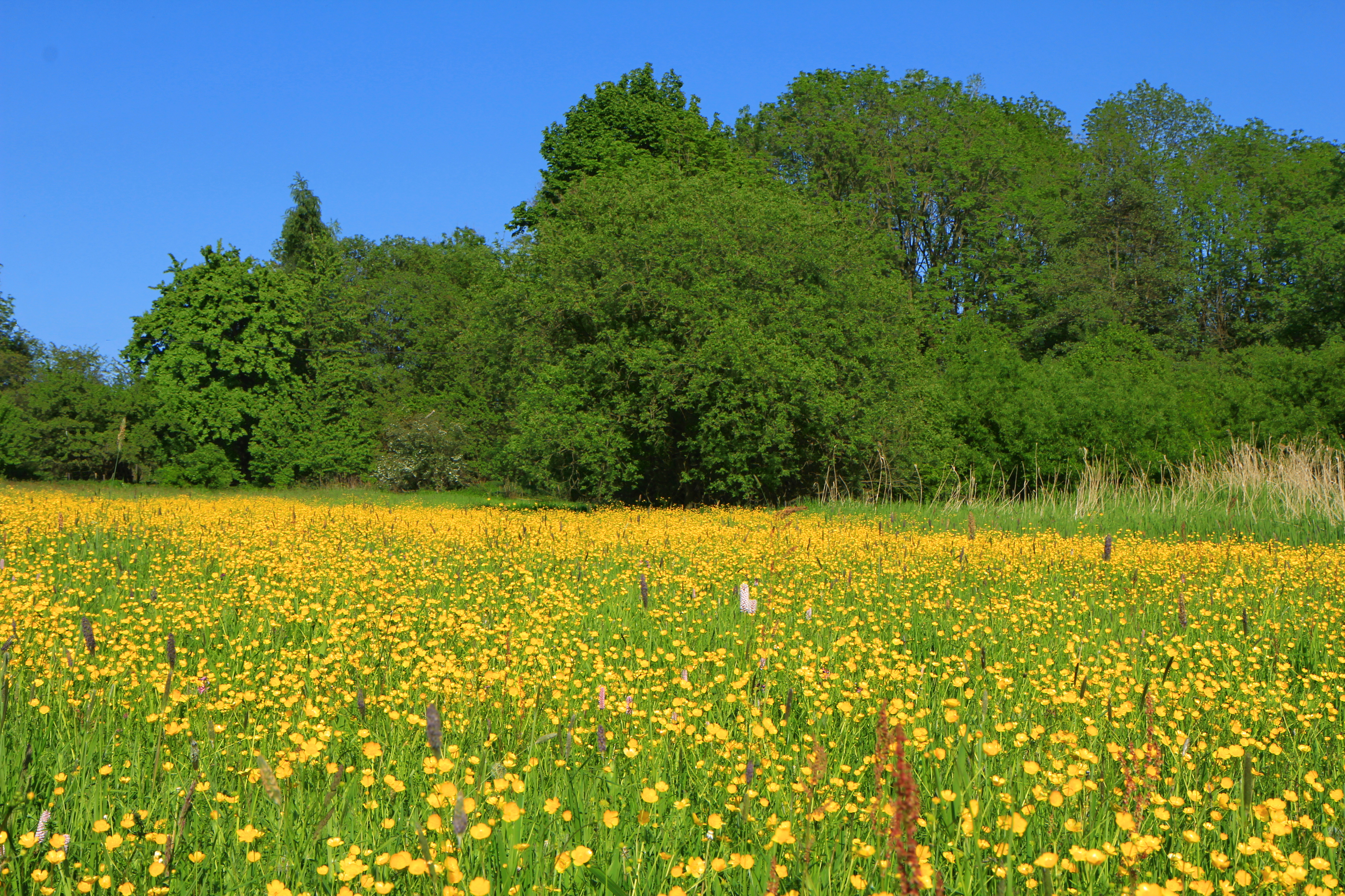 Babinské_meadows.